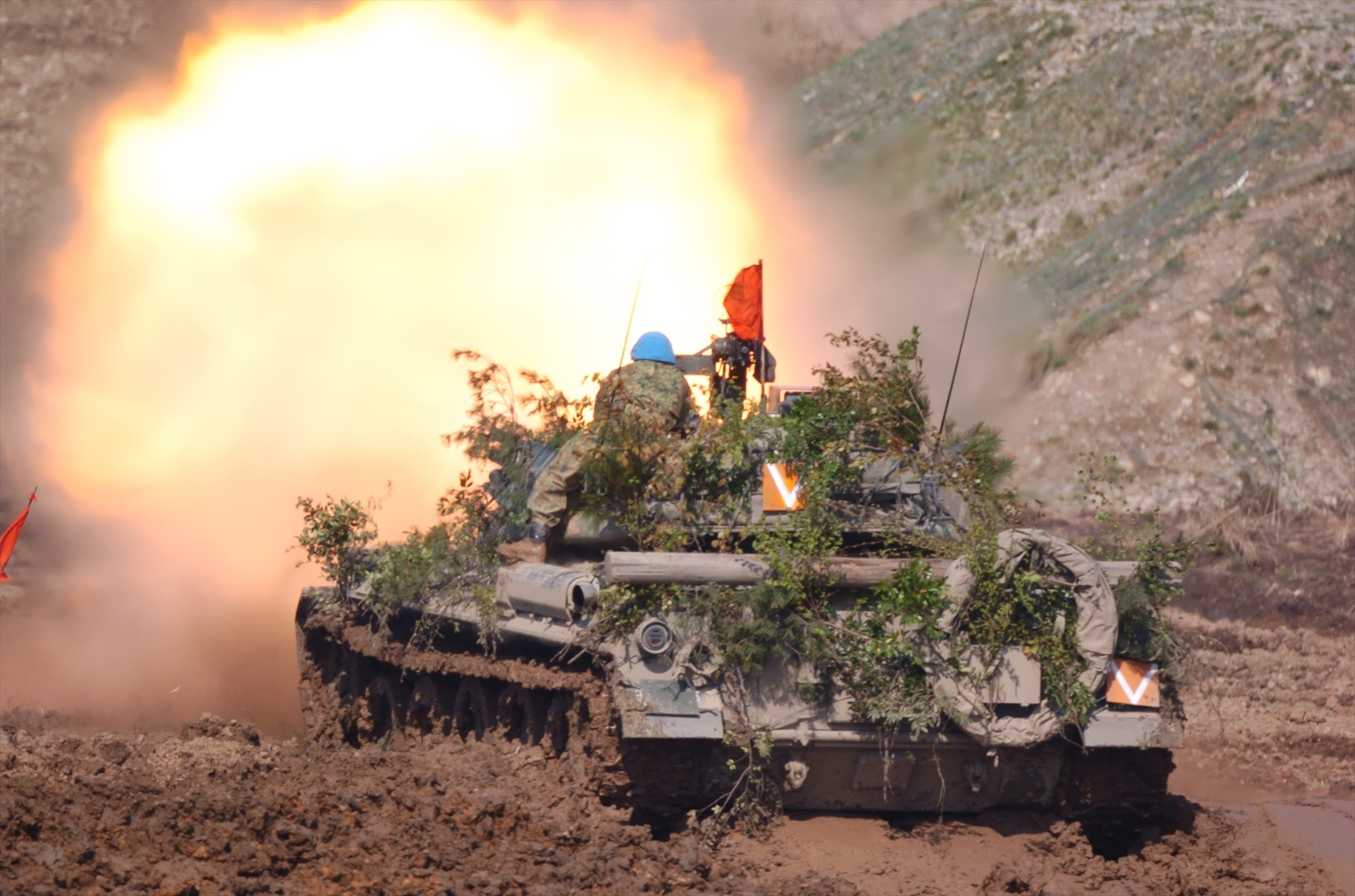 Title 20.4.21 １０Ｄ：７４ＴＫ射撃①.JPG Album 装備 ７４式戦車（第１０戦車大隊）